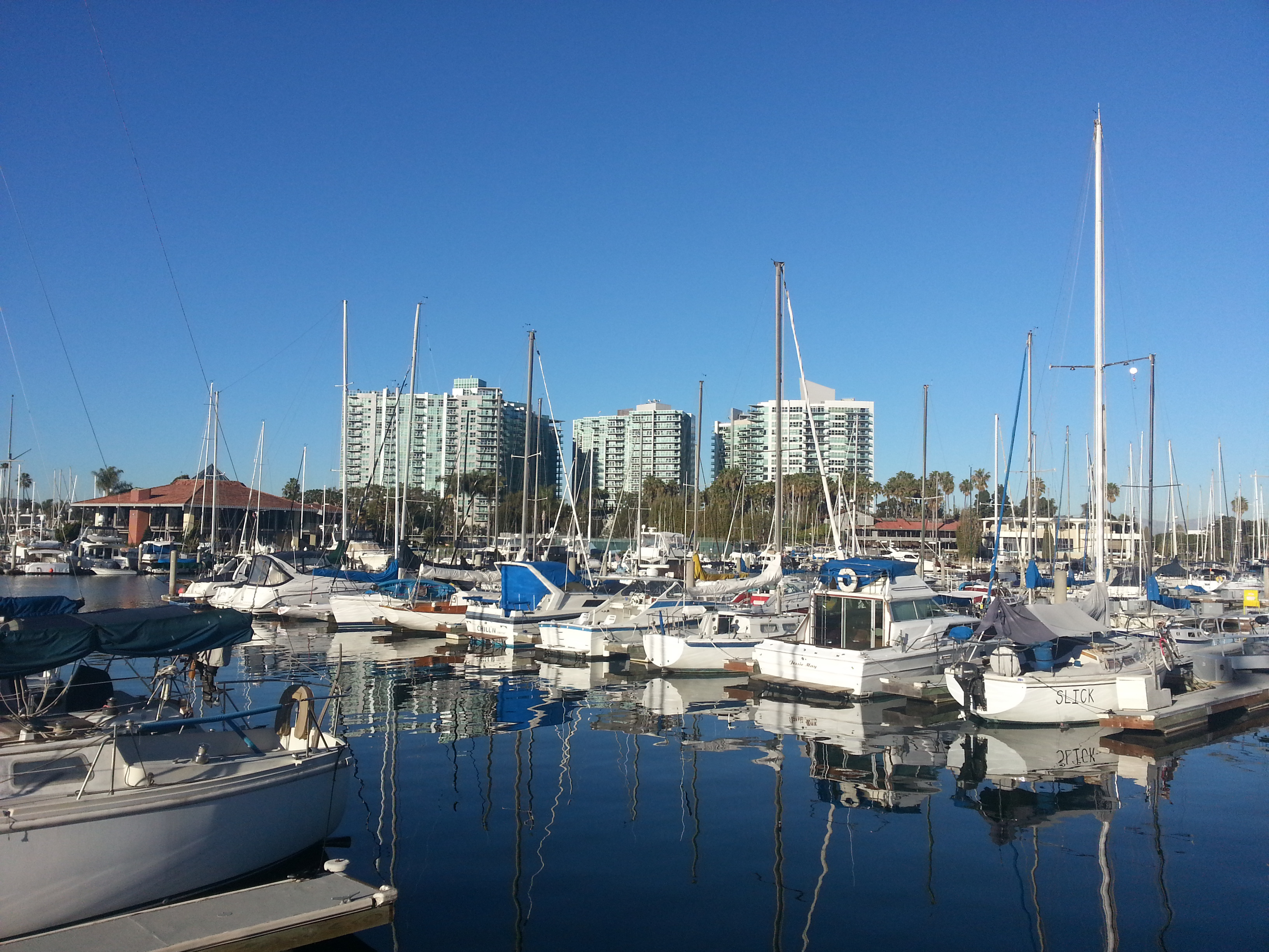 Yachts moored in Marina del Rey